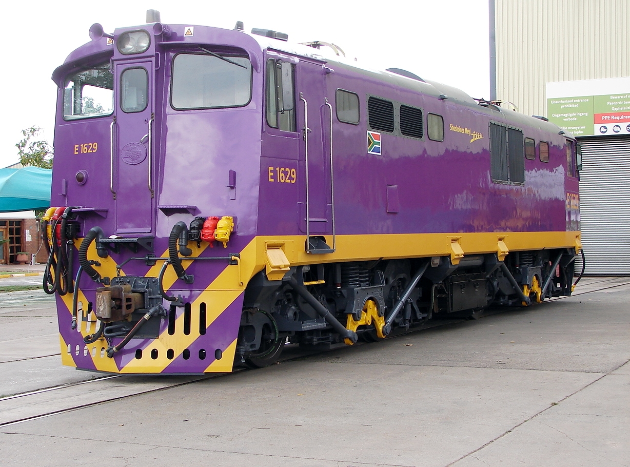 SAR Class 6E1 Series 5 E1629 Location: Koedoespoort, Pretoria, Gauteng